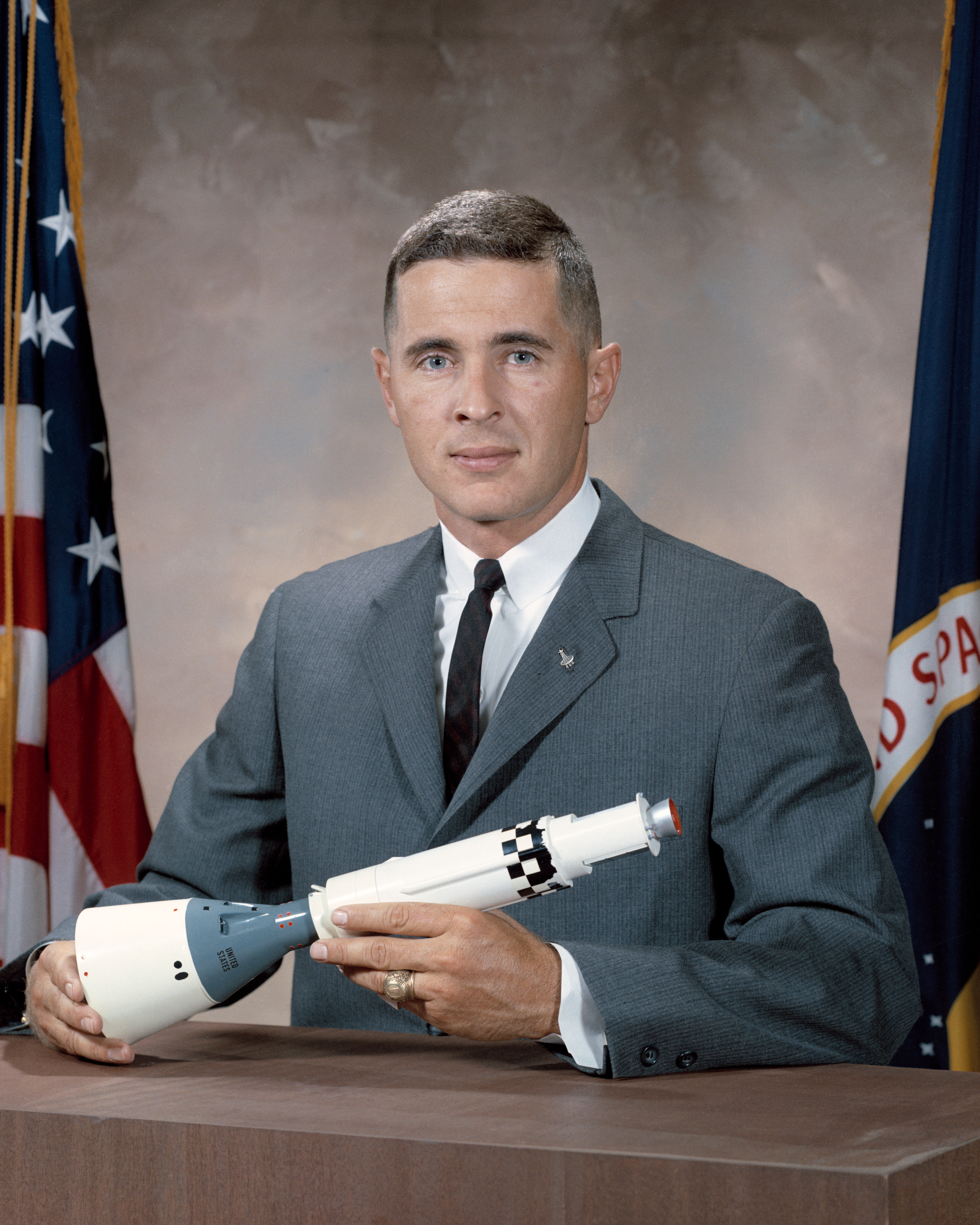 This is the official NASA portrait of astronaut William Anders. Anders was commissioned in the air Force after graduation from the Naval Academy and served as a fighter pilot in all-weather interception squadrons of the Air Defense Command. Later he was responsible for technical management of nuclear power reactor shielding and radiation effects programs while at the Air Force Weapons Laboratory in New Mexico. In 1964, Anders was selected by the National Aeronautics and Space Administration (NASA) as an astronaut with responsibilities for dosimetry, radiation effects and environmental controls. He was backup pilot for the Gemini XI, Apollo 11 flights, and served as lunar module (LM) pilot for Apollo 8, the first lunar orbit mission in December 1968. He has logged more than 6,000 hours flying time.